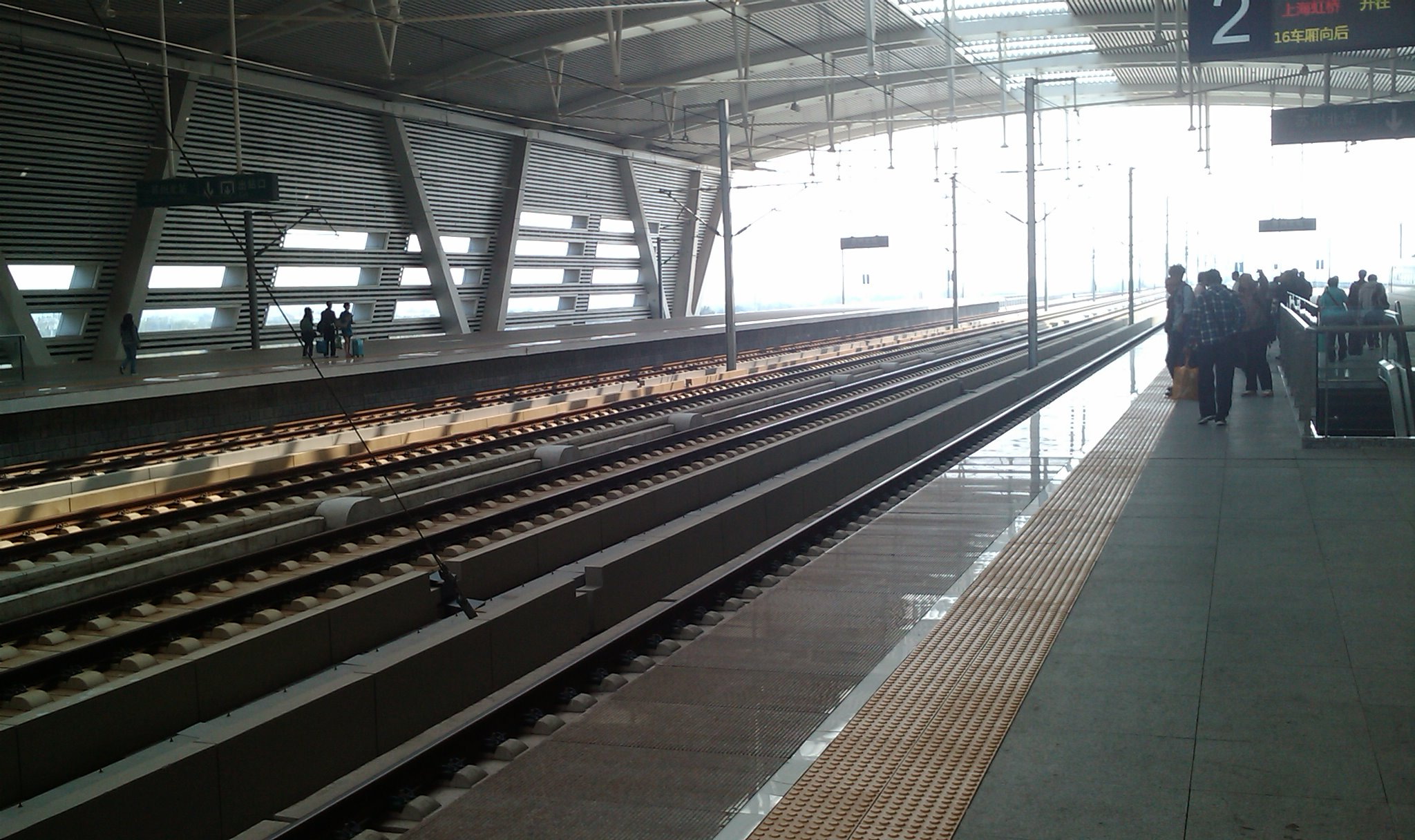 Suzhou North Railway Station Platform